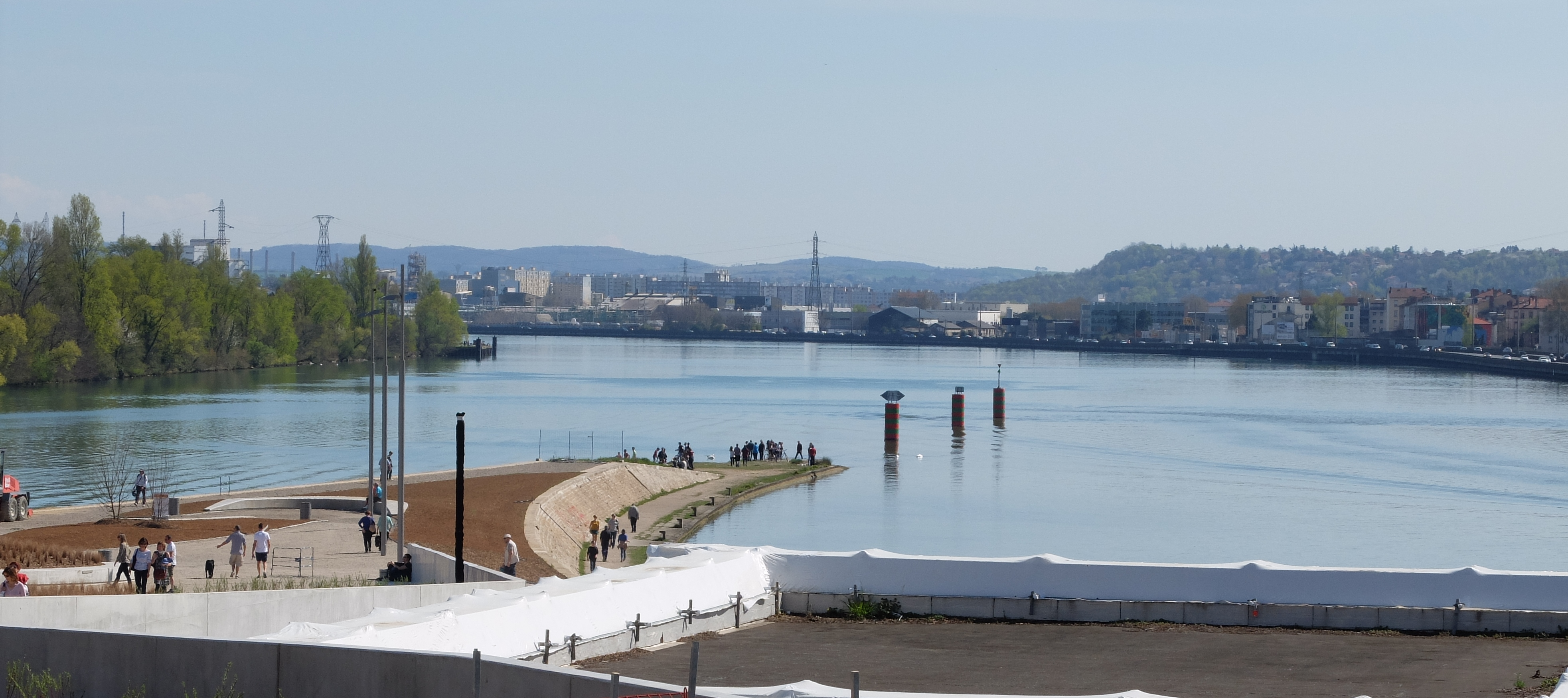 Confluence of Rhône and Saône rivers in LyonC